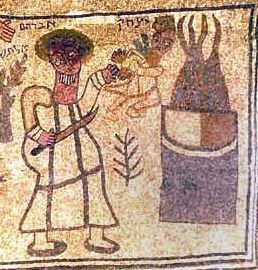 Derivative work: cropped from File:Beit alfa02.jpg